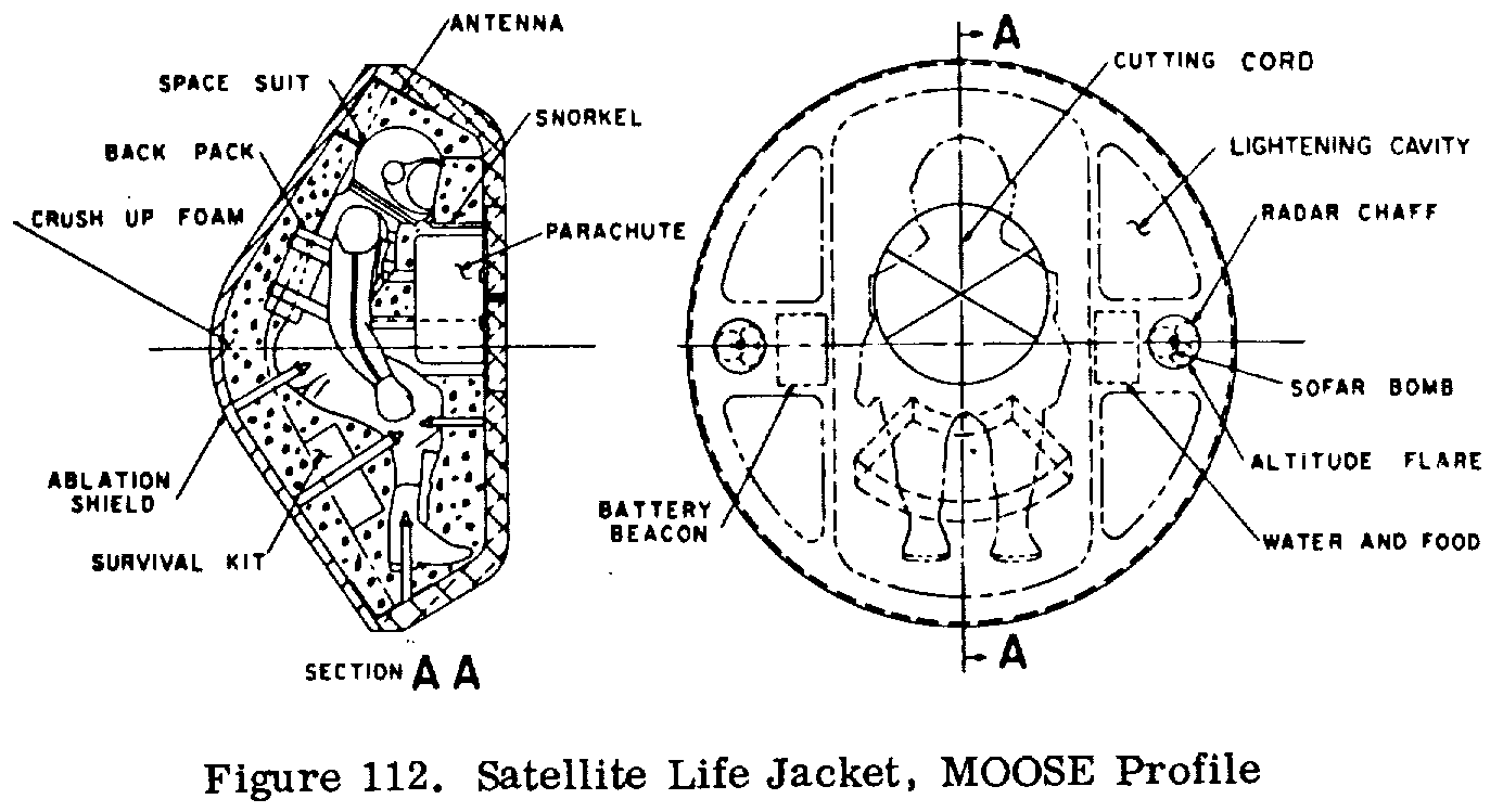 Figure 112. Satellite Life Jacket, MOOSE Profile Analysis and design of space vehicle flight control systems. Volume 16, page 147